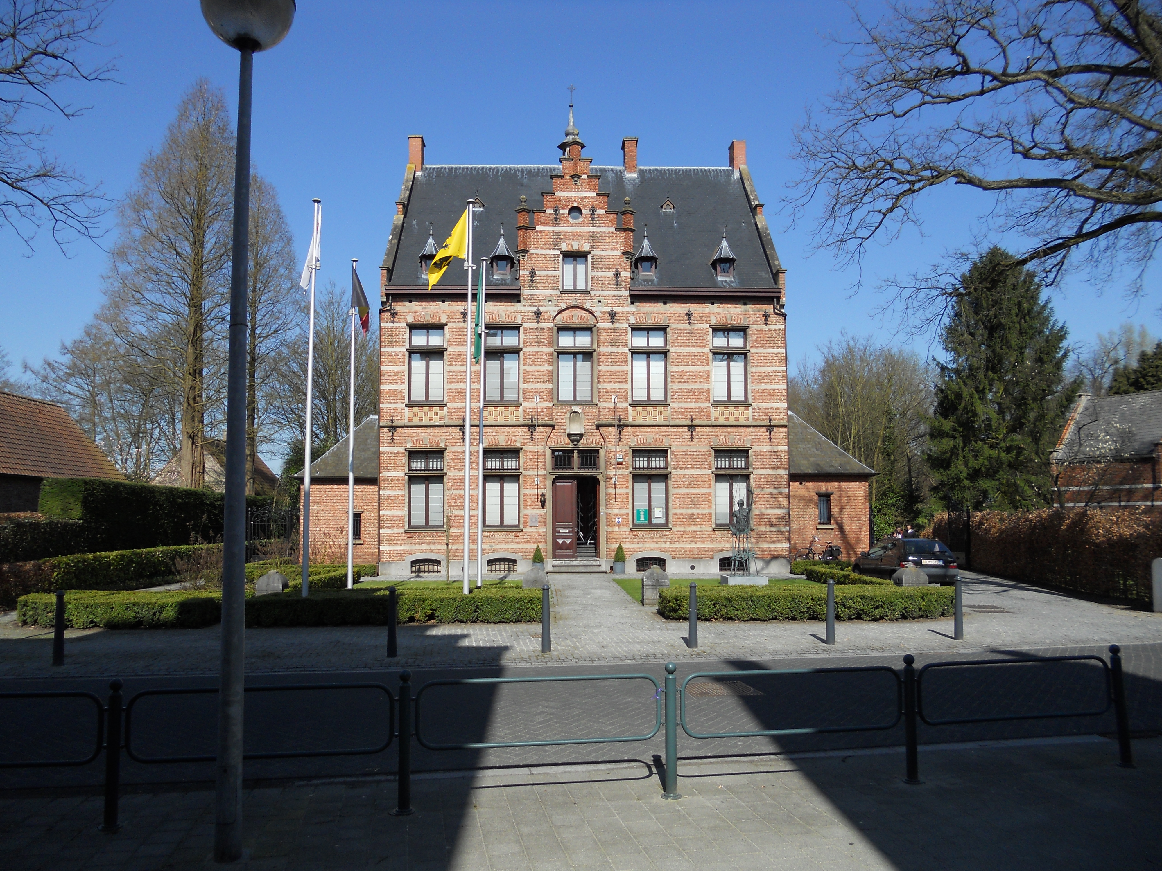 Hofke van Chantraine, former parsonage of Oud-Turnhout, Belgium. Now an arts and history center and also the location of the tourism office. Built by architect P.J. Taeymans in 1895 in Neo-Flemish Renaissance style.